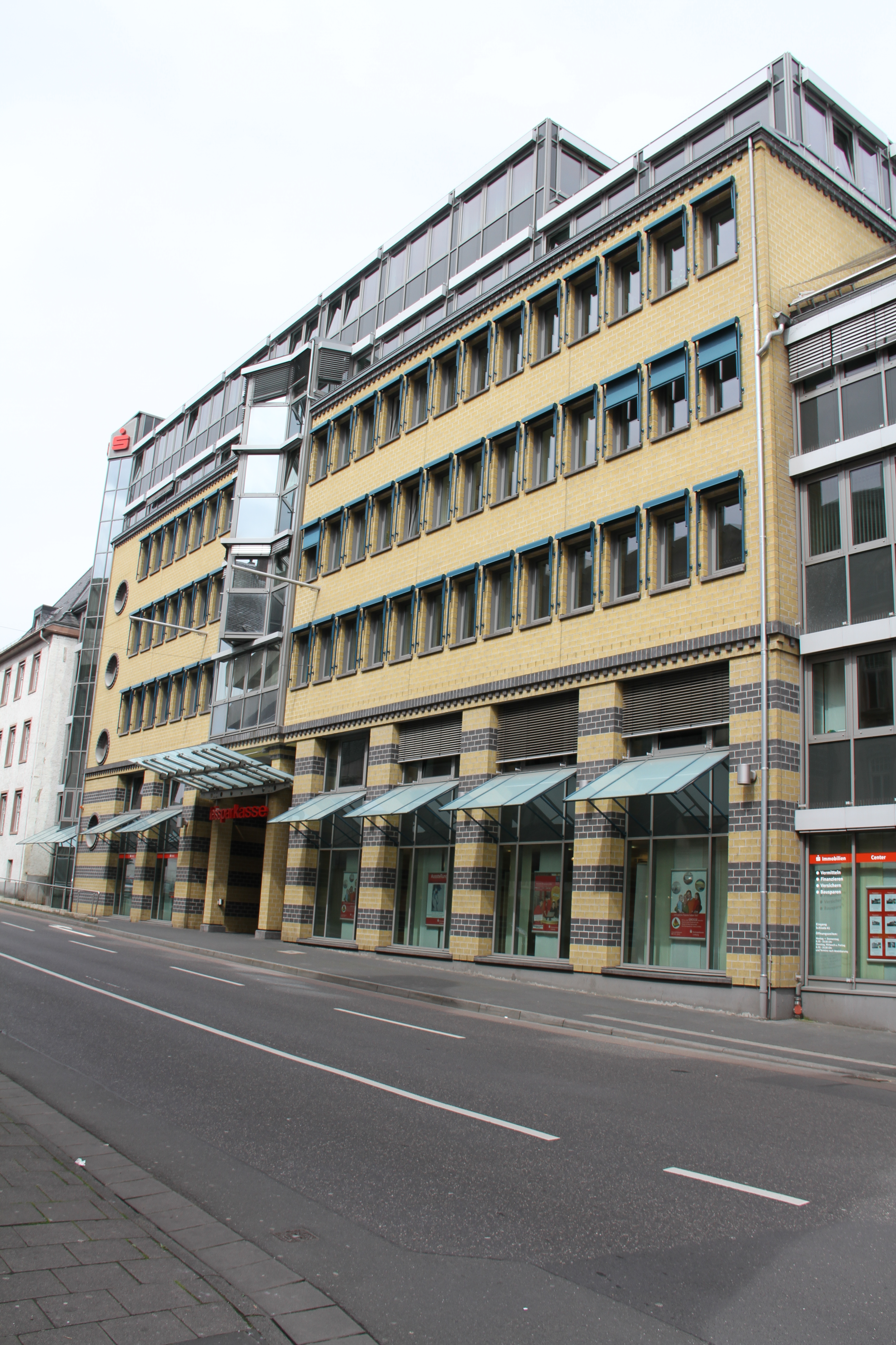 Headquarter of the Kreissparkasse Limburg